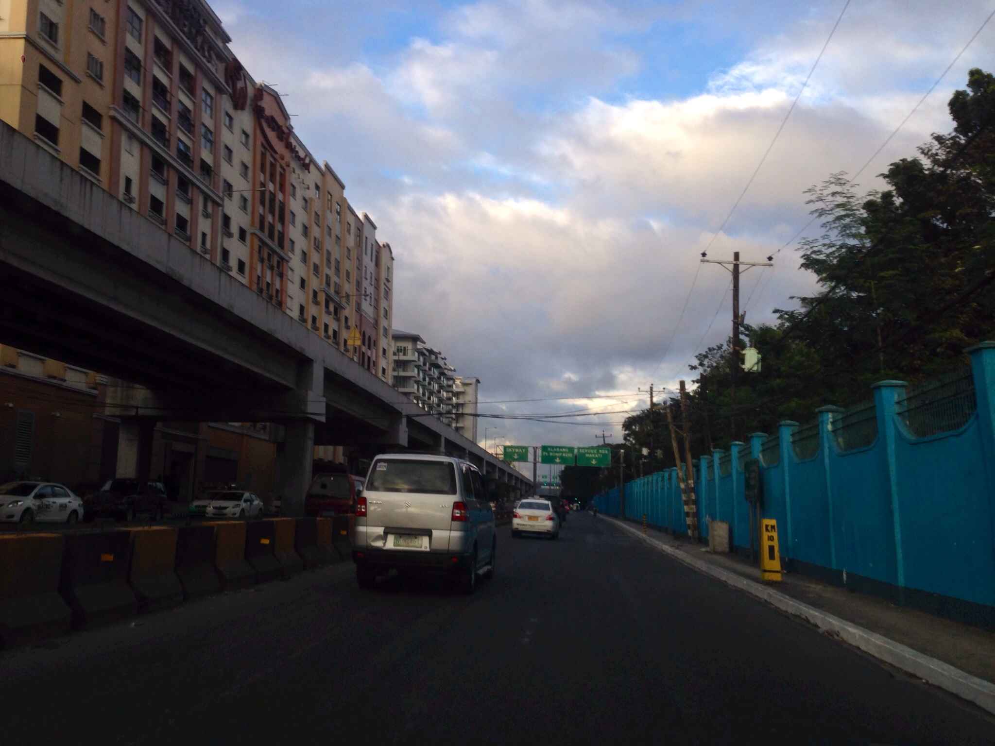 Andrews Avenue (Sales Road segment) near Nichols Interchange, Villamor Air Base, Newport City, Pasay, Manila, Philippines